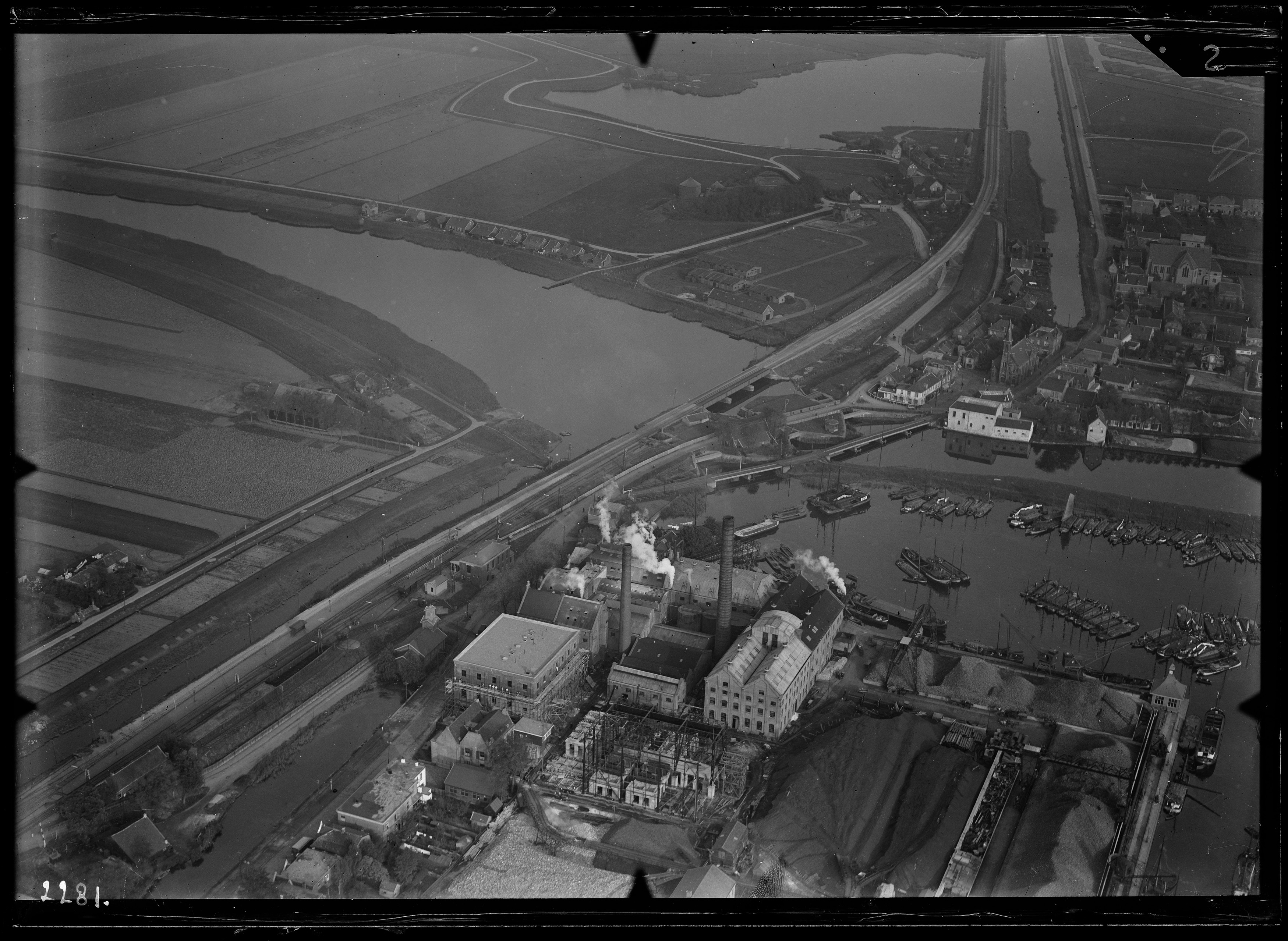 Aerial photograph of Halfweg, The Netherlands